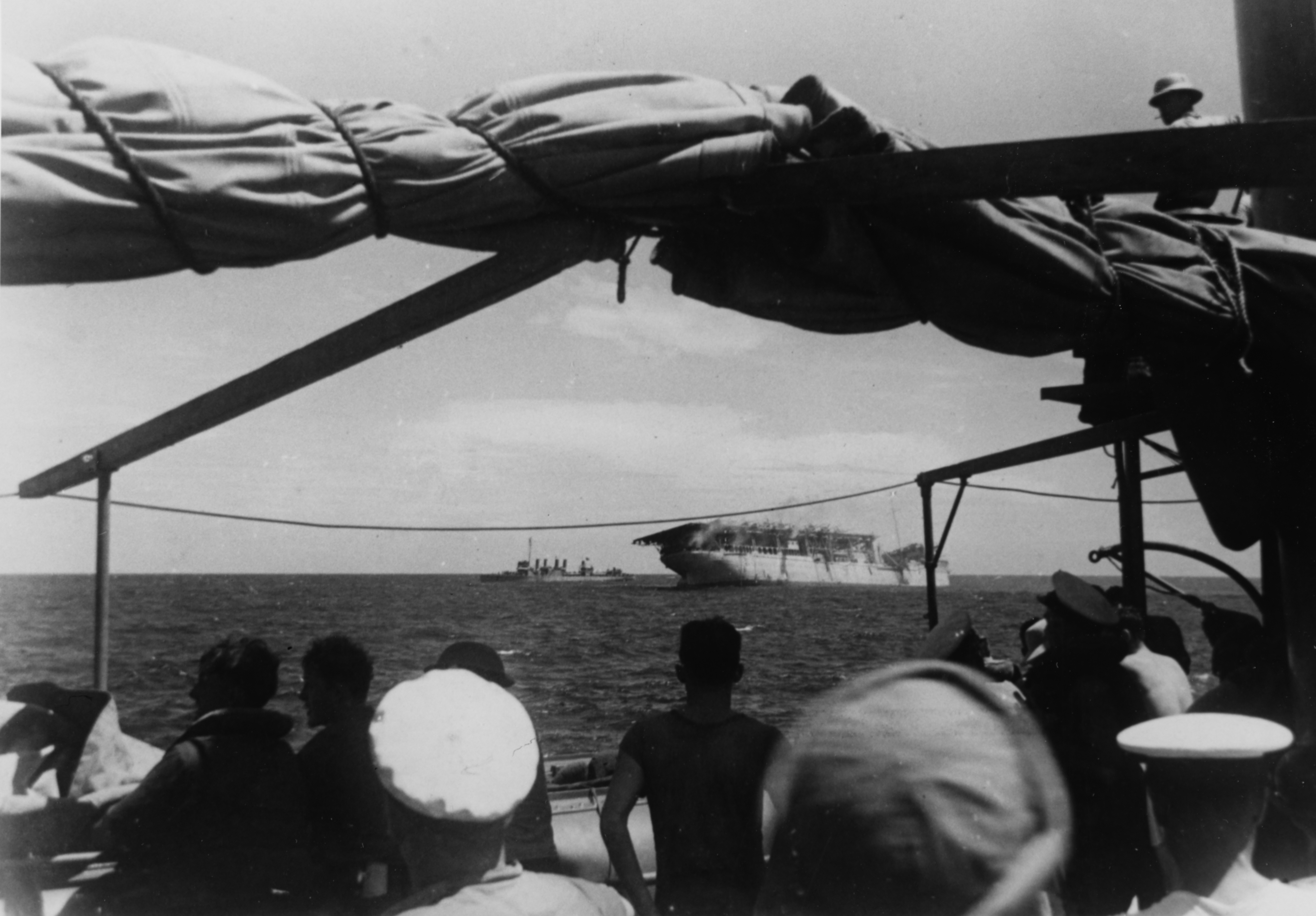 The U.S. Navy seaplane tender USS Langley (AV-3) being abandoned after receiving crippling damage from Japanese bombs, south of Java, on 27 February 1942. The destroyer USS Edsall (DD-219) is standing by off Langley's port side. The photo was taken from USS Whipple (DD-217). Edsall was sunk on 1 March with all hands lost.